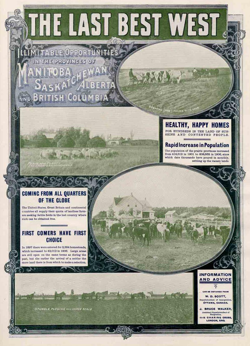 Advertisement of the Canadian goverment in the Christmas edition of the Globe newspaper encouraging the settlement of Western Canada.